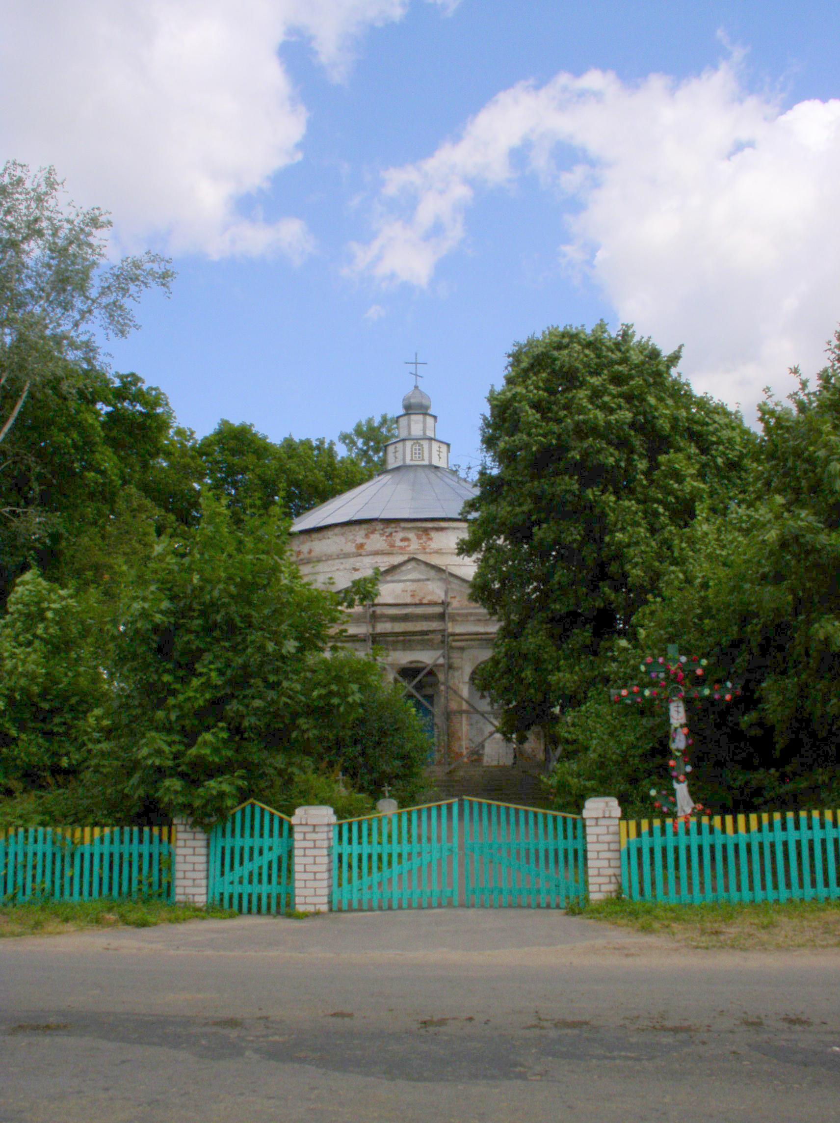 Chapel-burial-vault. Pralniki, Belarus.